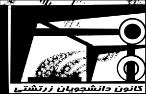 Zoroastrian Student Association